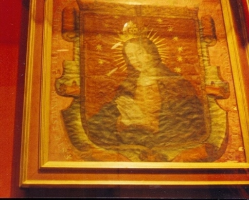 The banner carried by Hernan Cortes in 1521.